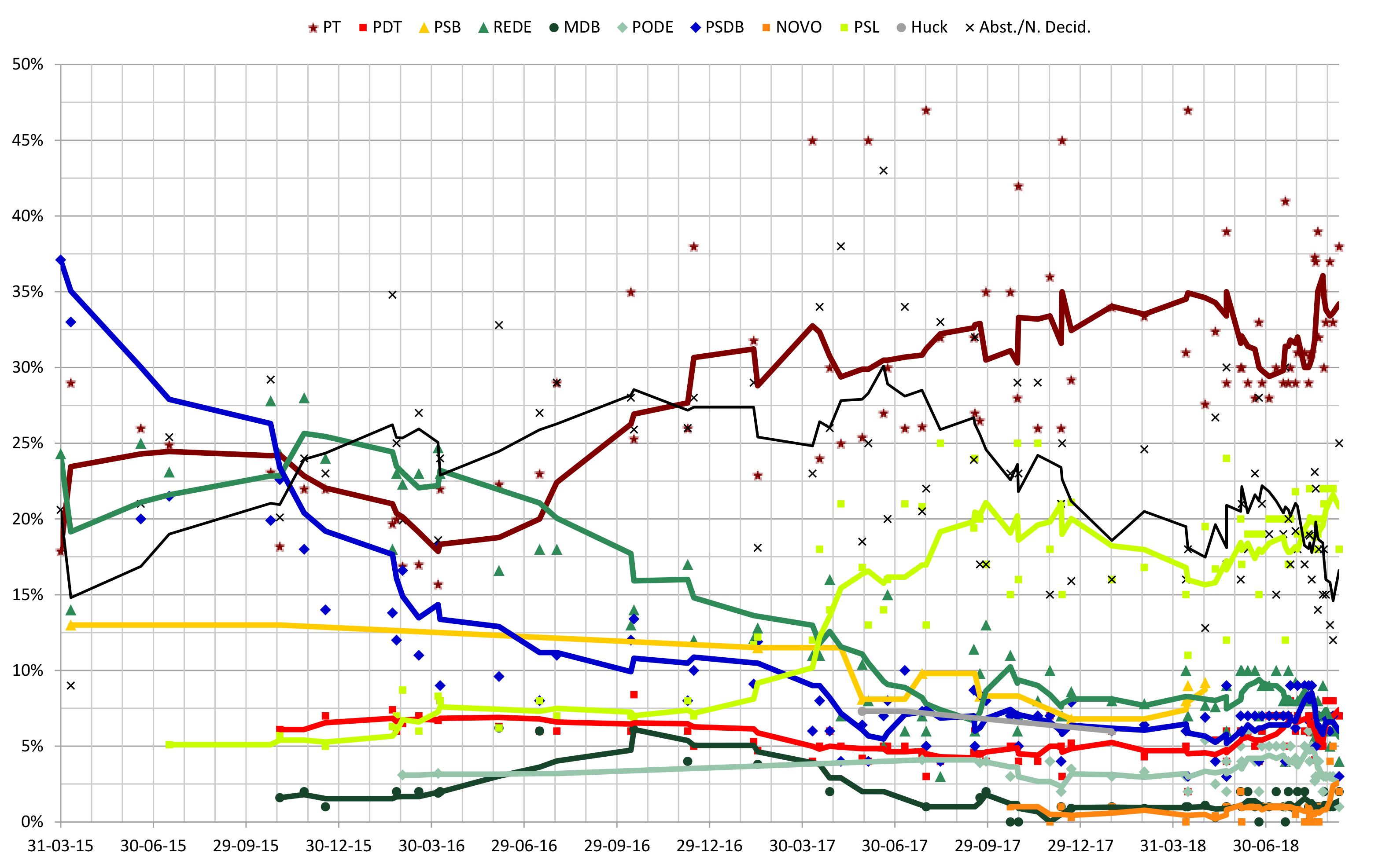 Graph showing 5 poll average trend lines of Brazilian opinion polls from June 2015 to the most recent one with Lula. Each line corresponds to a political party. Based on data at